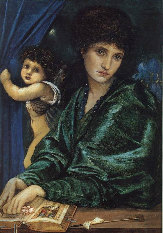 Portrait of Maria Zambaco